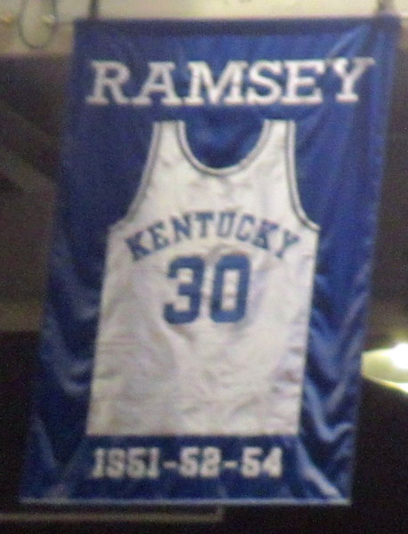 A jersey honoring Frank Ramsey hanging in Rupp Arena in Lexington, Kentucky